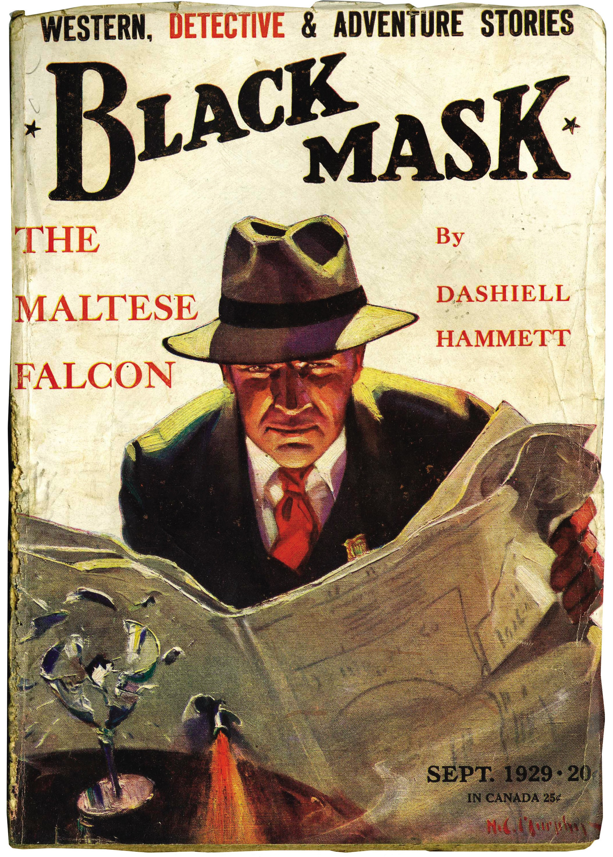 Cover of hardboiled magazine Black Mask, September 1929, featuring part 1 of The Maltese Falcon, by hardboiled pioneer Dashiell Hammett